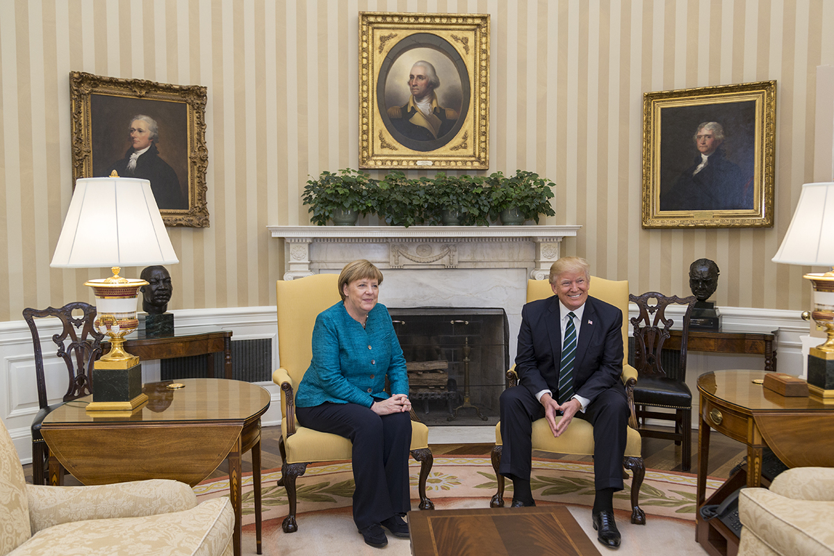 President Donald Trump meets with German Chancellor Angela Merkel in the Oval Office, Friday, March 17, 2017. (Official White House Photo by Shealah Craighead)